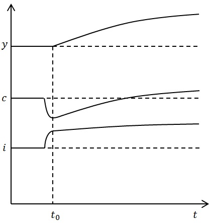 Solow model, transition to the Golden rule, path 2